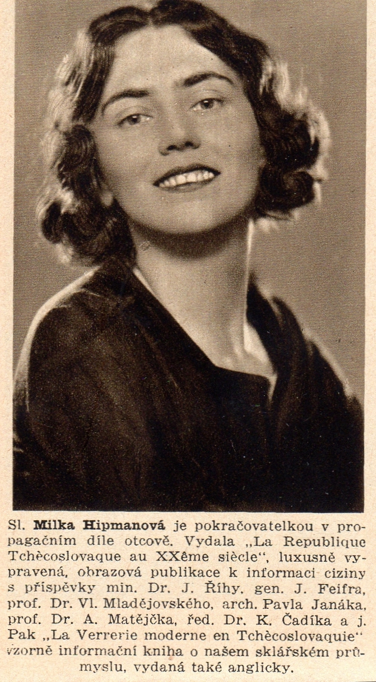 Milka Hipmanová, daughter of Karel Hipman